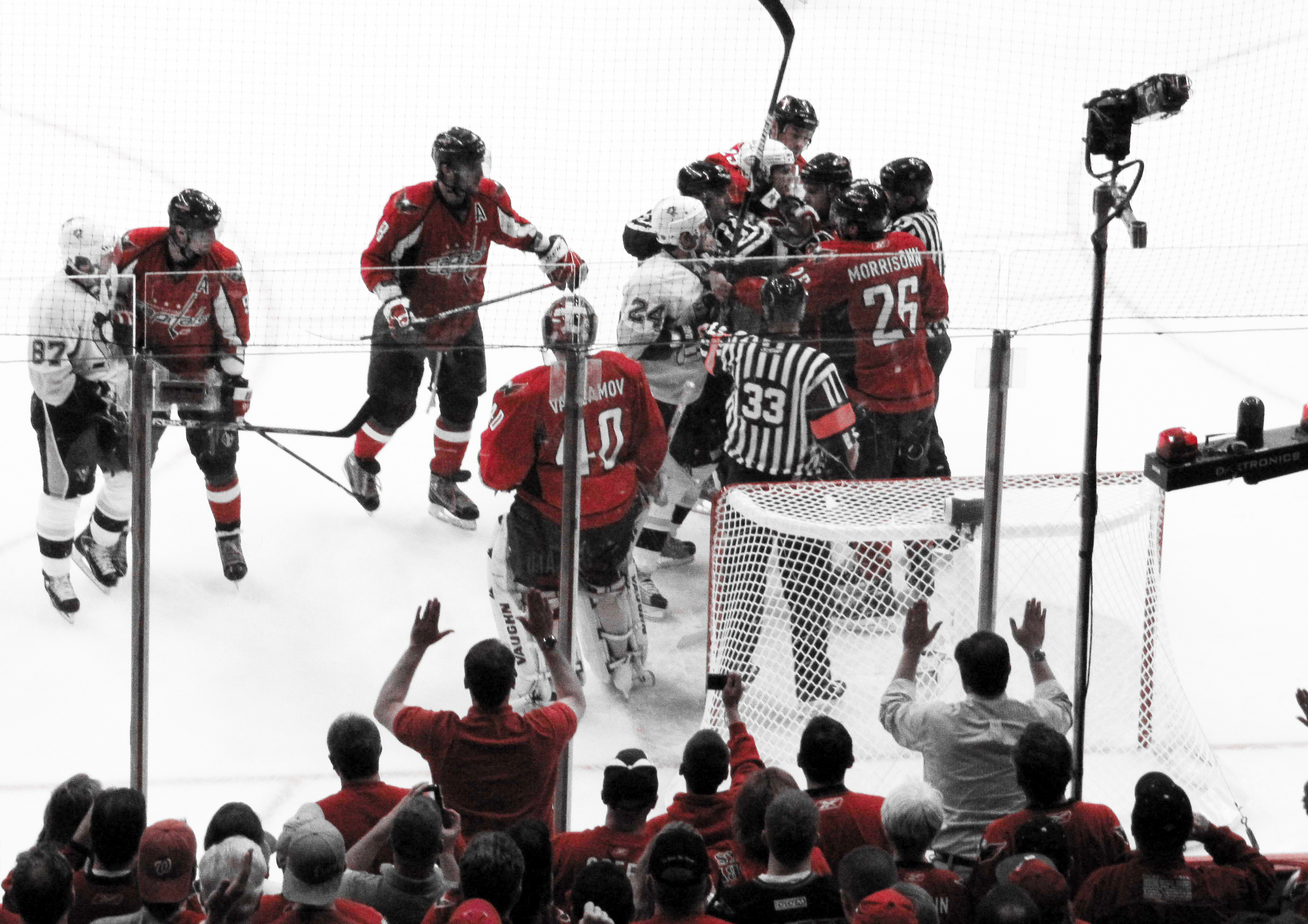 Caps/Pens: Game 1 (2009 NHL Playoffs) - 13